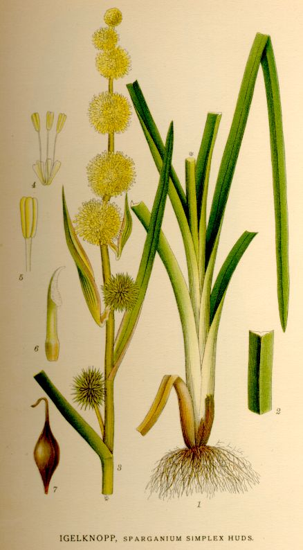 Sparganium simplex Huds. (Accepted name: Sparganium emersum Rehmann)